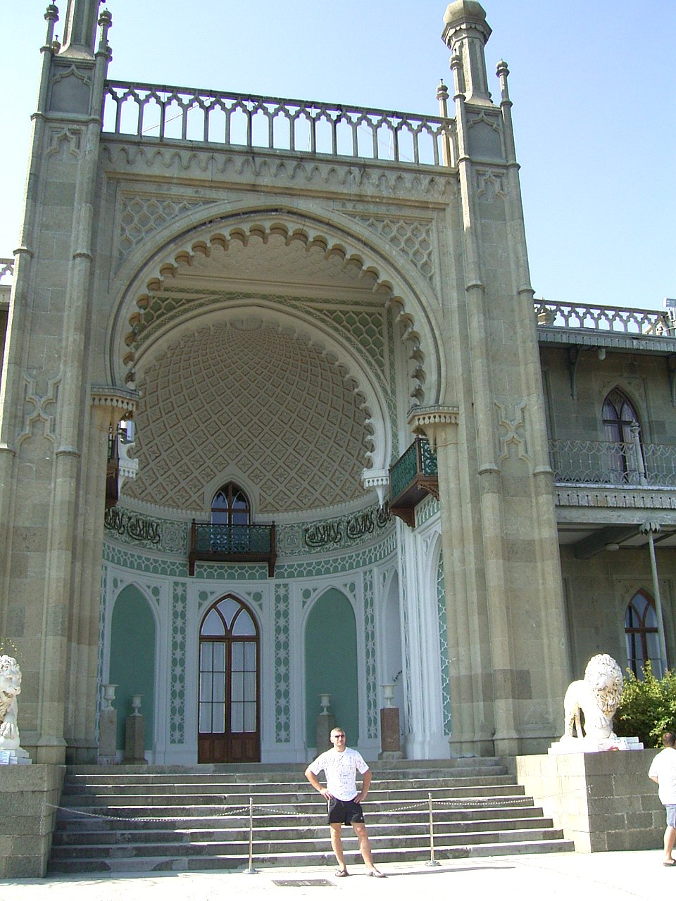 Islamic Iwan as building facade at the Vorontsovsky Palace in Alupka, the Crimea, Ukraine. Author: Alexander Noskin Date: 8-21-2005